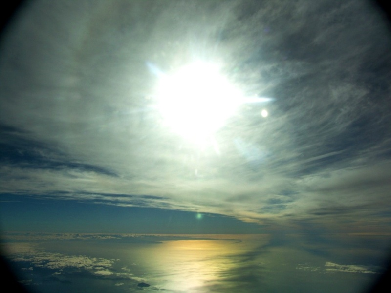 Photo taken from seat 5A Qantas flight QF4061 Auckland to Wellington February 4th 2006, by Paul Moss. The aircraft was at latitude 41 degrees south and the image is looking west towards the setting sun. Golden Bay and Farewell Spit are visible, located at the northern tip of the South Island of New Zealand.